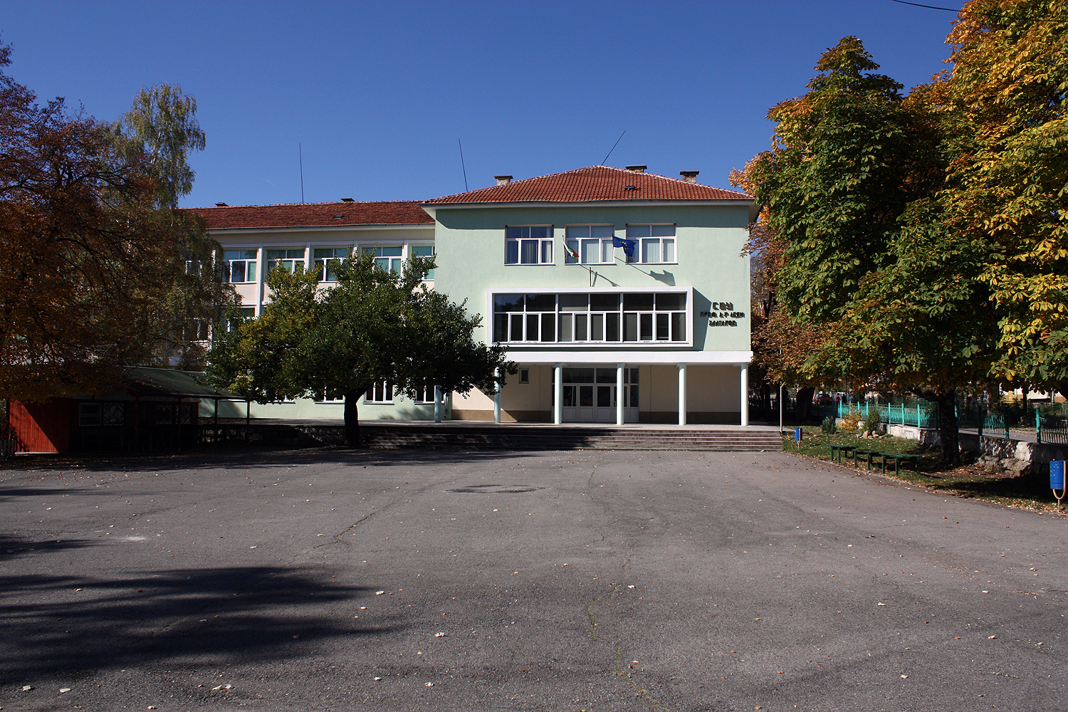 Godech Secondary school "Professor Asen Zlatarov"